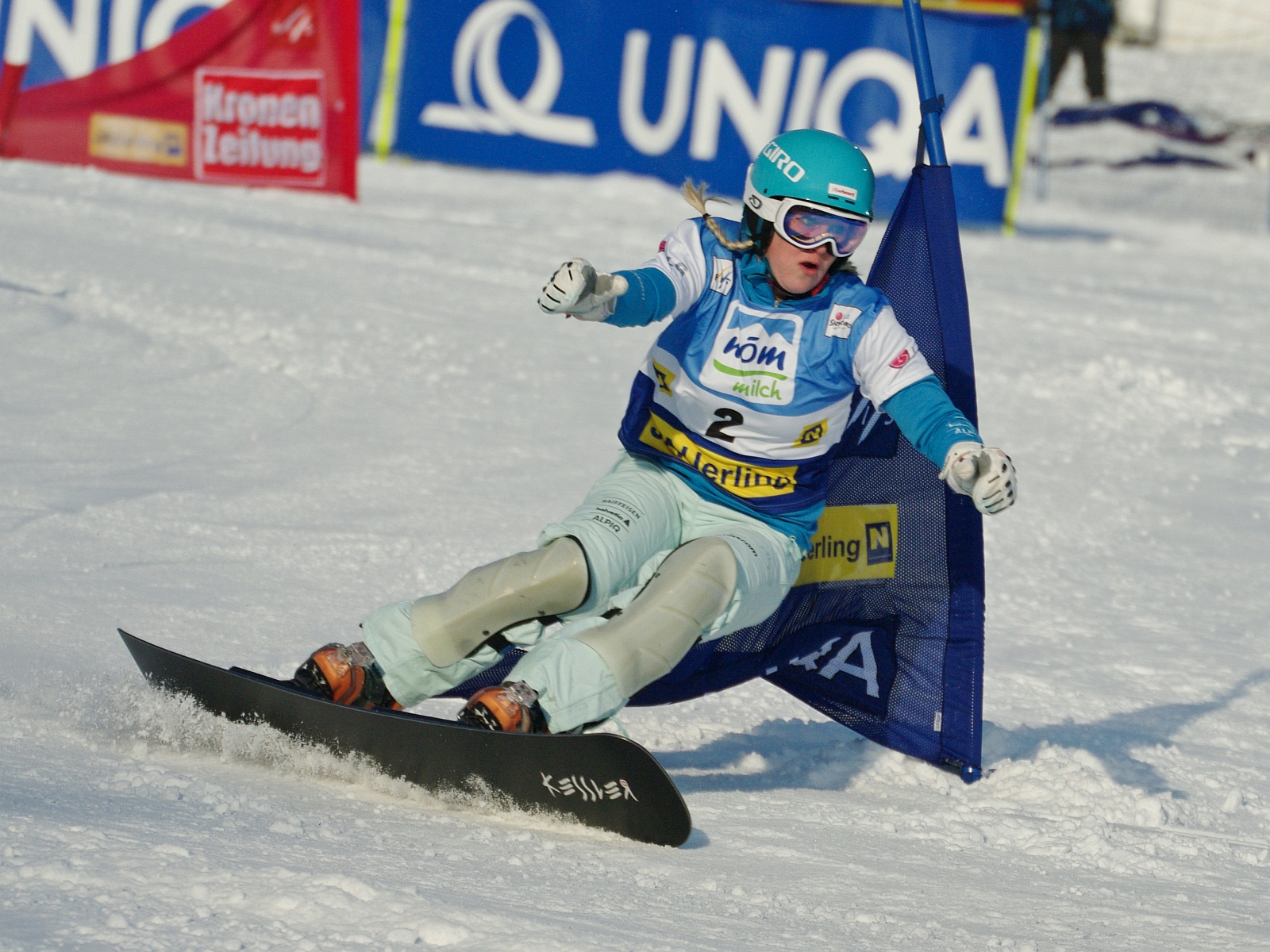 Swiss snowboarder Julie Zogg in the qualification round of the World Cup Parallel Slalom at the Jauerling in Austria on 13 January 2012.